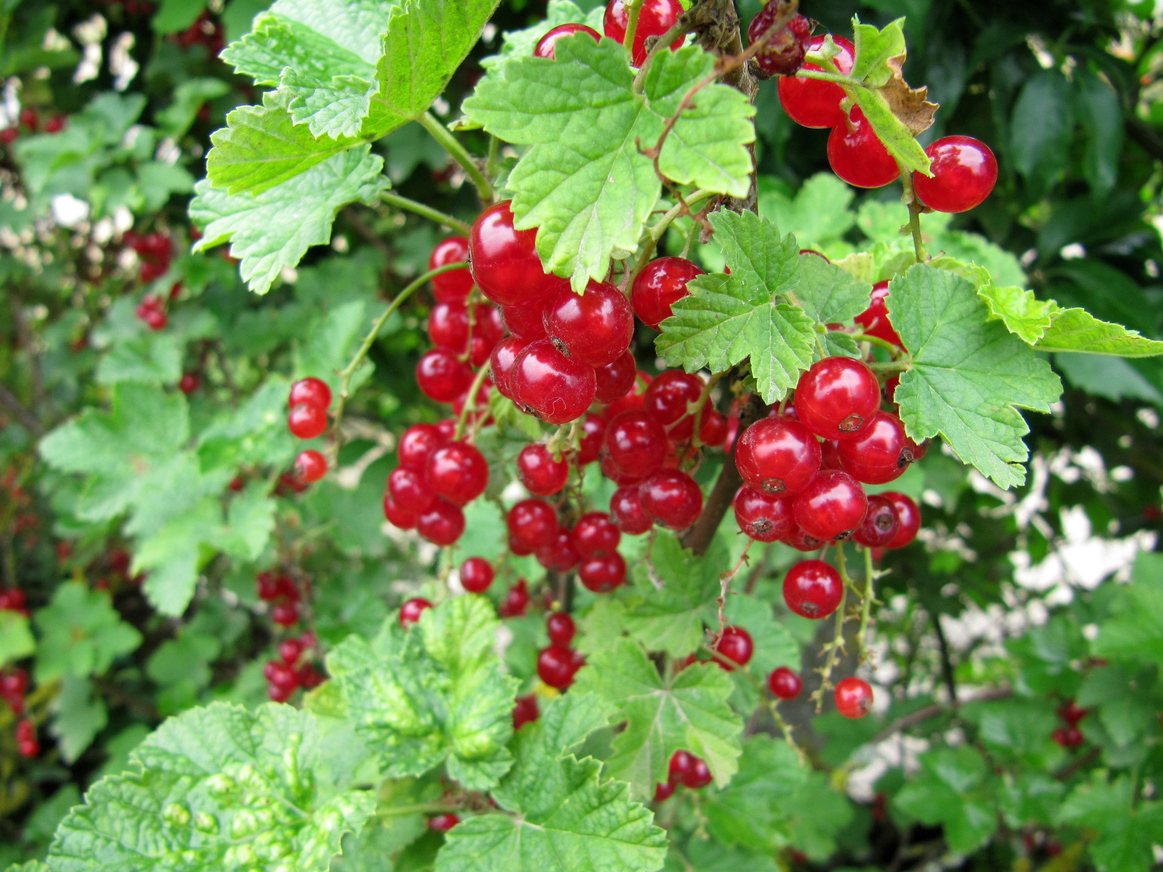 Red currants